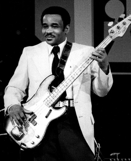 Bass guitar player of the Chicago blues band "The Aces", Dave Myers, in Montreux, Switzerland